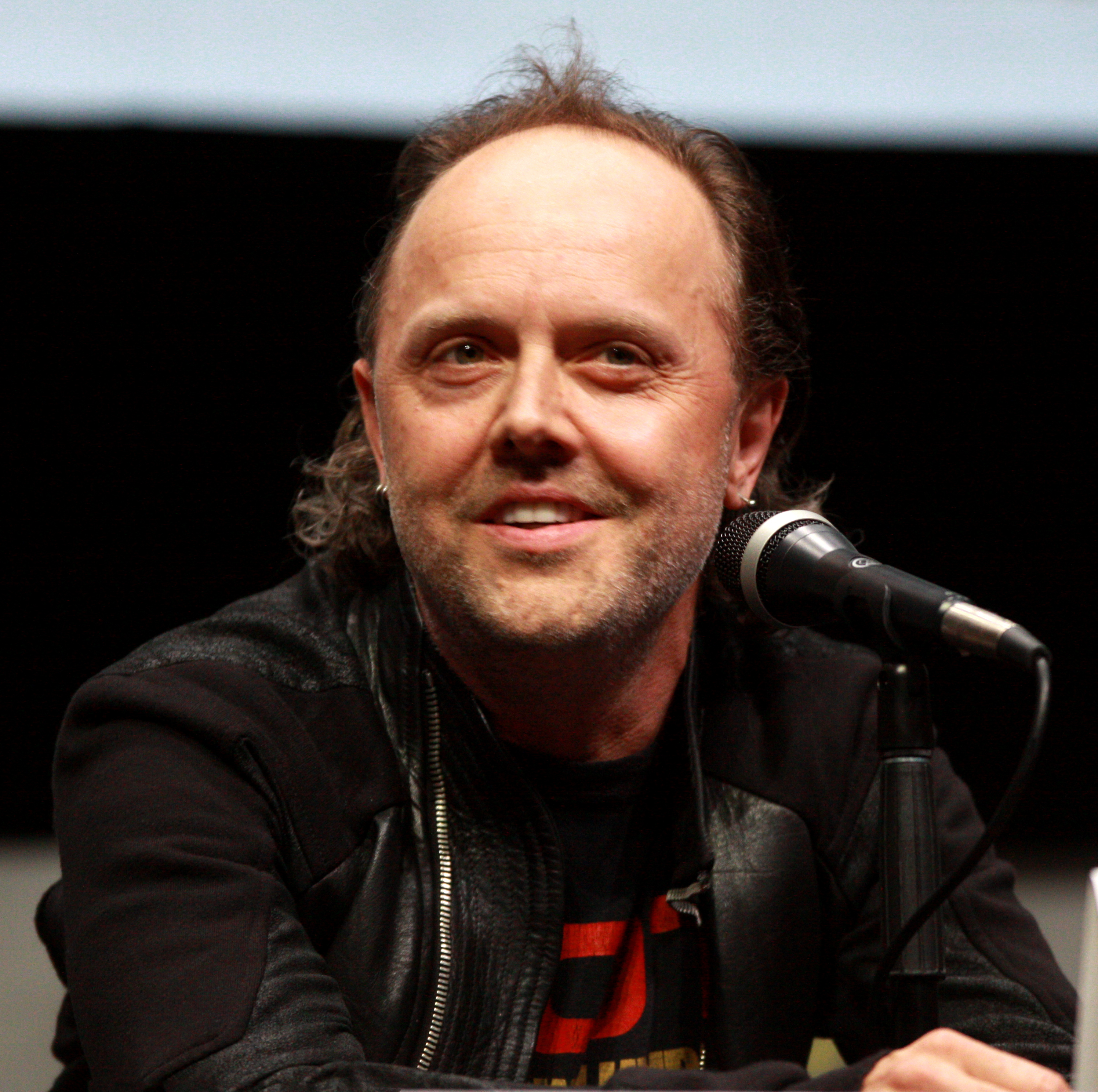 Lars Ulrich speaking at the 2013 San Diego Comic Con International, for "Metallica: Through the Never", at the San Diego Convention Center in San Diego, California.